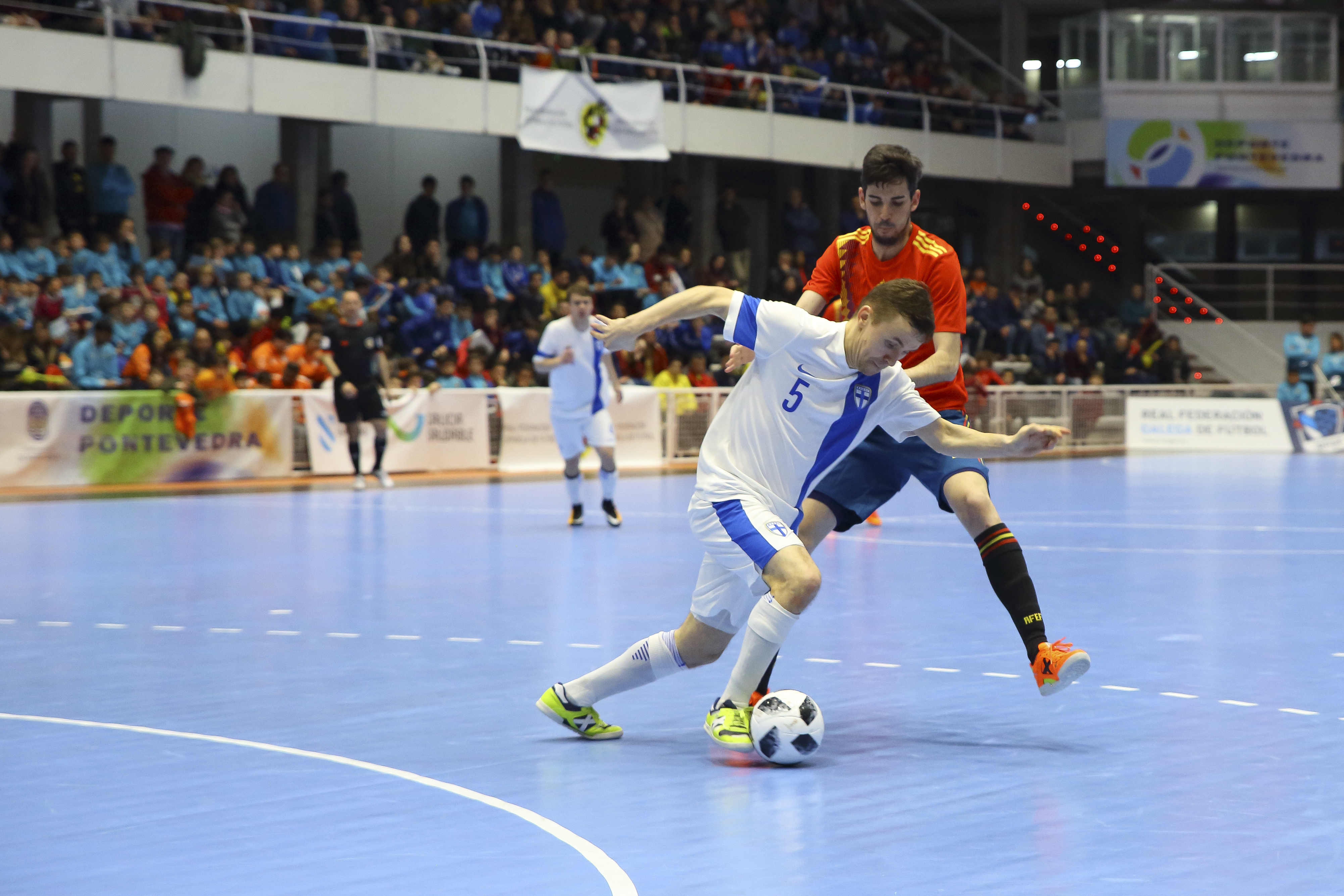 Futsal international friendly match between Spain and Finland at Pabellon Municipal de Pontevedra on April 2, 2018 in Pontevedra, Spain.